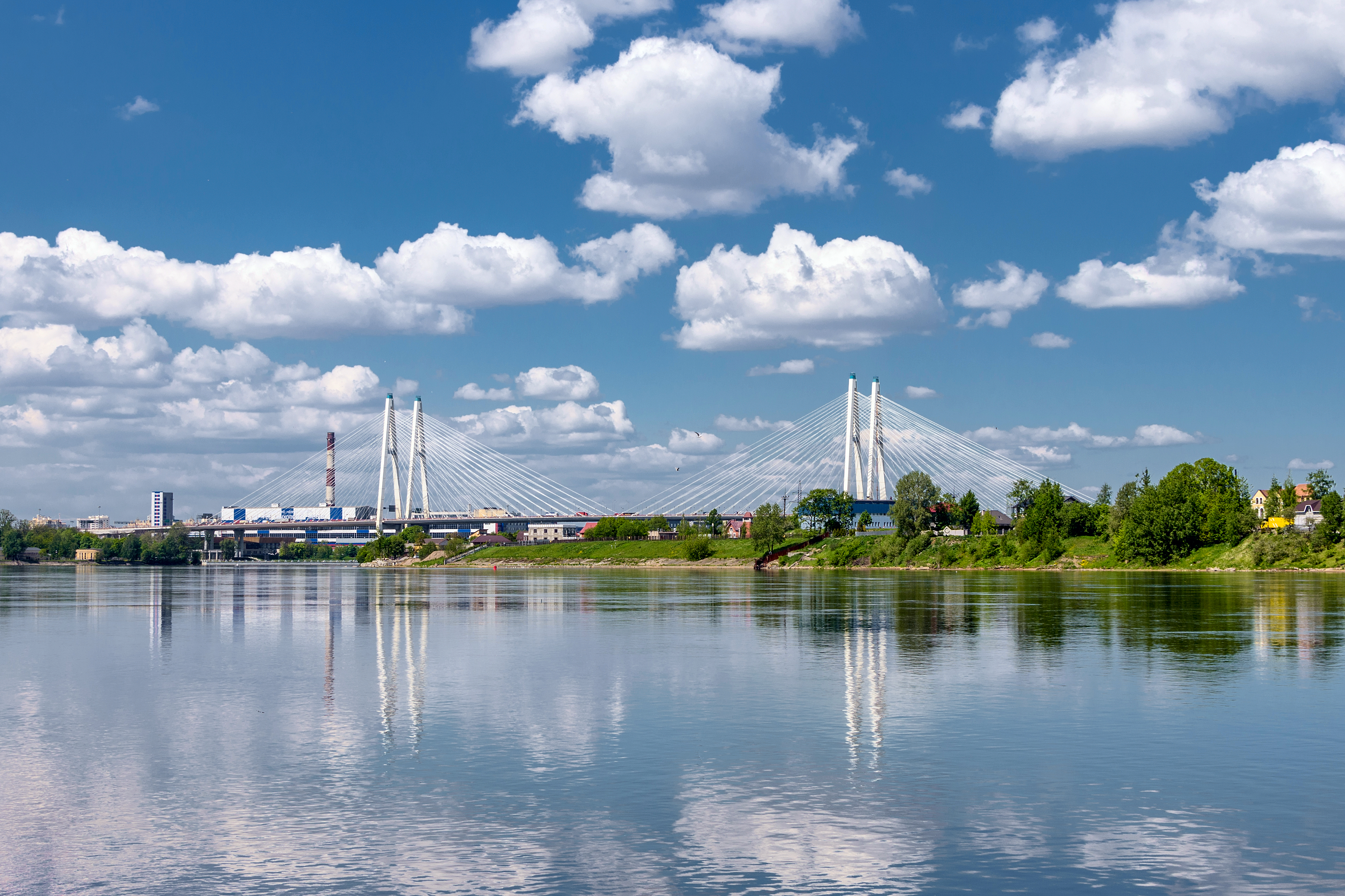 Bolshoy Obukhovsky (Cable-stayed) Bridge in Saint Petersburg